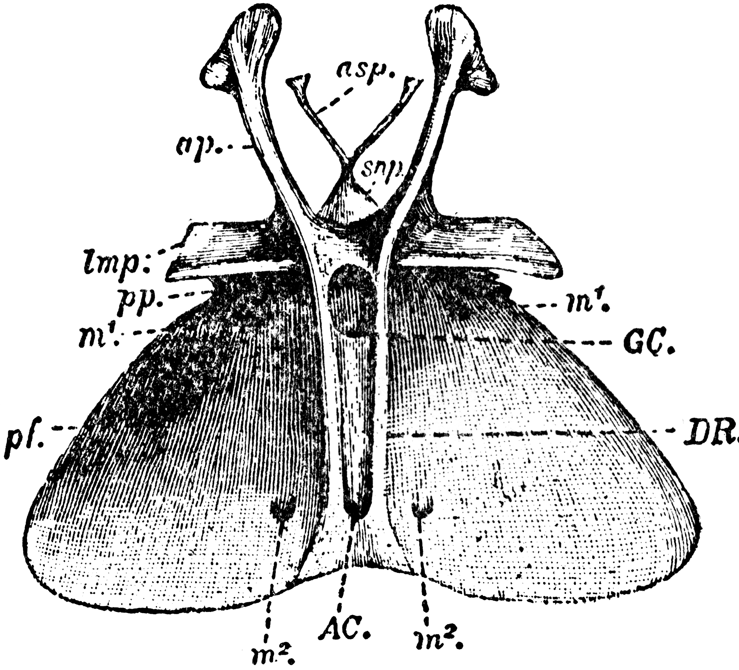 Entosternum of scorpion (Palamnaeus indus, de Geer); dorsal surface.asp, Paired anterior process of the sub-neural arch.snp, Sub-neural arch.ap, Anterior lateral process.lmp, Lateral median process.pp, Posterior process.pf, Posterior flap or diaphragm of Newport. m1 and m2, Perforations of the diaphragm for the passage of muscles.DR, The paired dorsal ridges.GC, Gastric canal or foramen.AC, Arterial canal or foramen.(After Ray Lankester, Quart. Journ. Micr. Sci., N. S. vol. xxiv, 1884.)